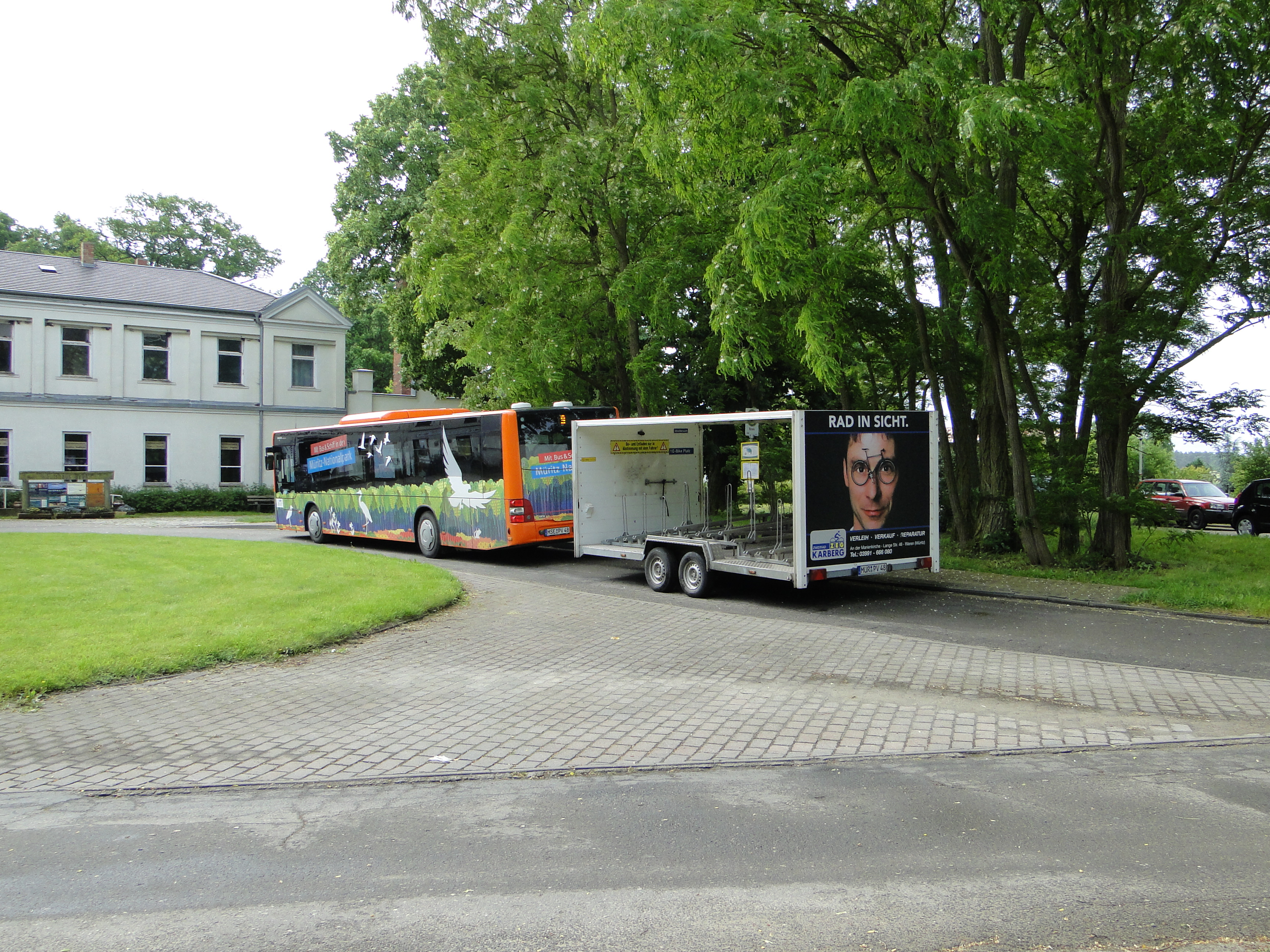 Bus at the former manor house in Boek, district Mecklenburgische Seenplatte, Mecklenburg-Vorpommern, Germany